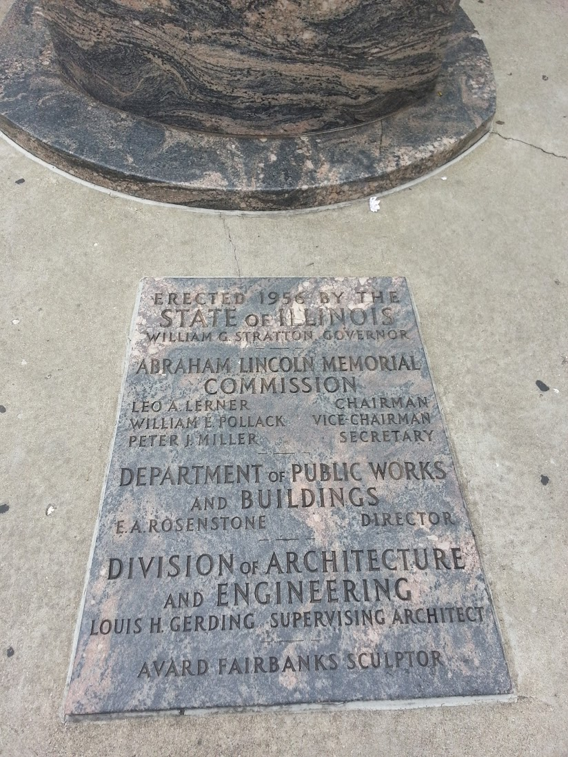 The baseplate at the foot of The Chicago Lincoln statue.